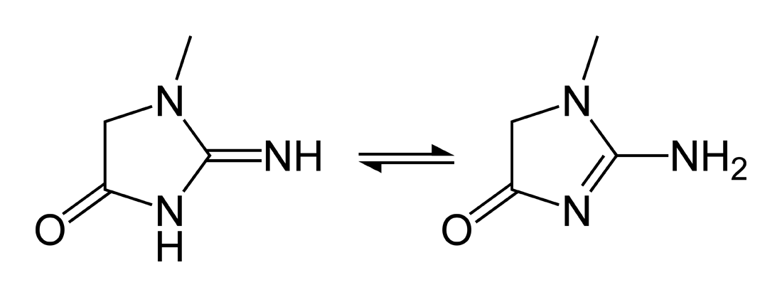 Skeletal formulae of the two tautomers of creatinine